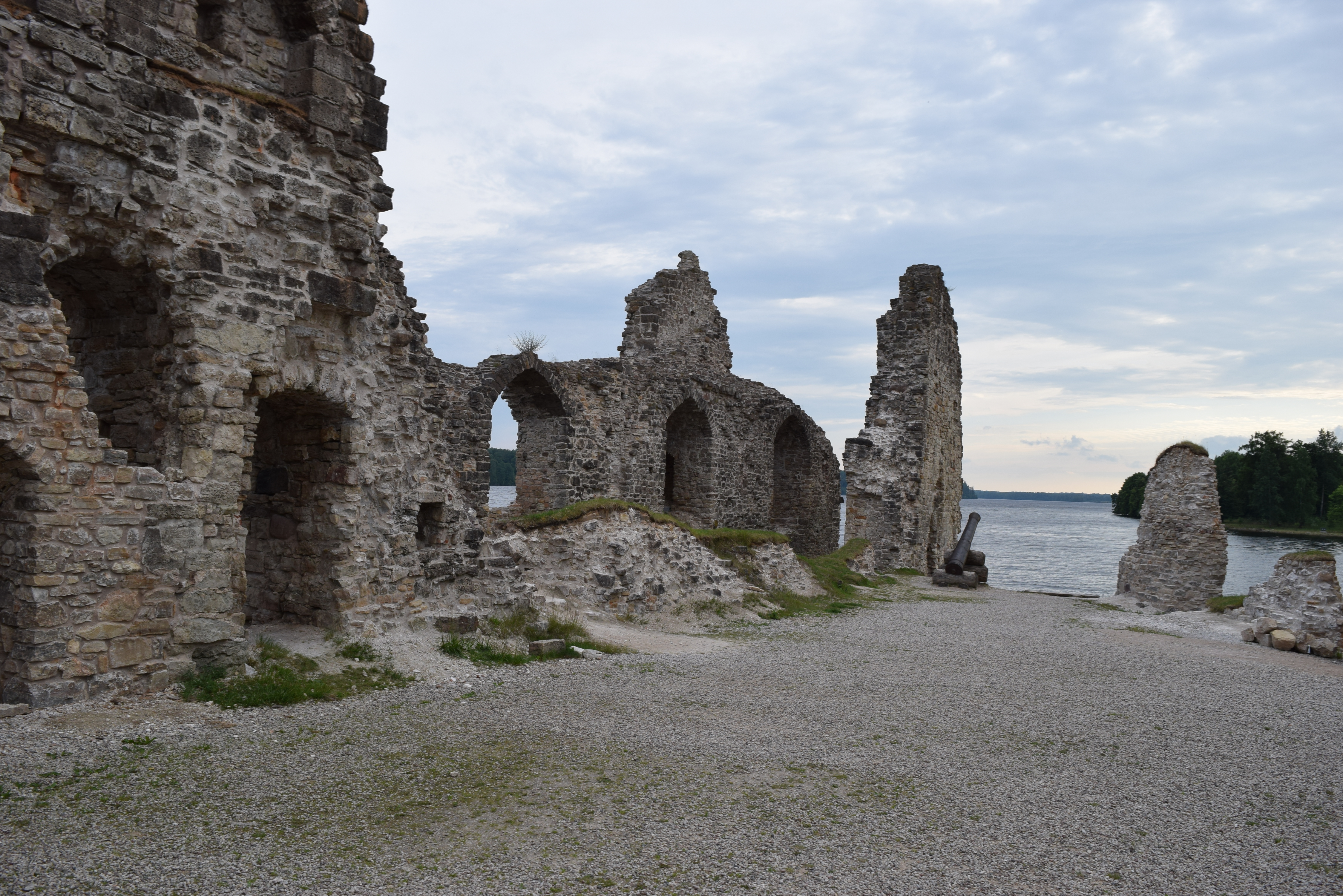 Koknese Parish, Latvia